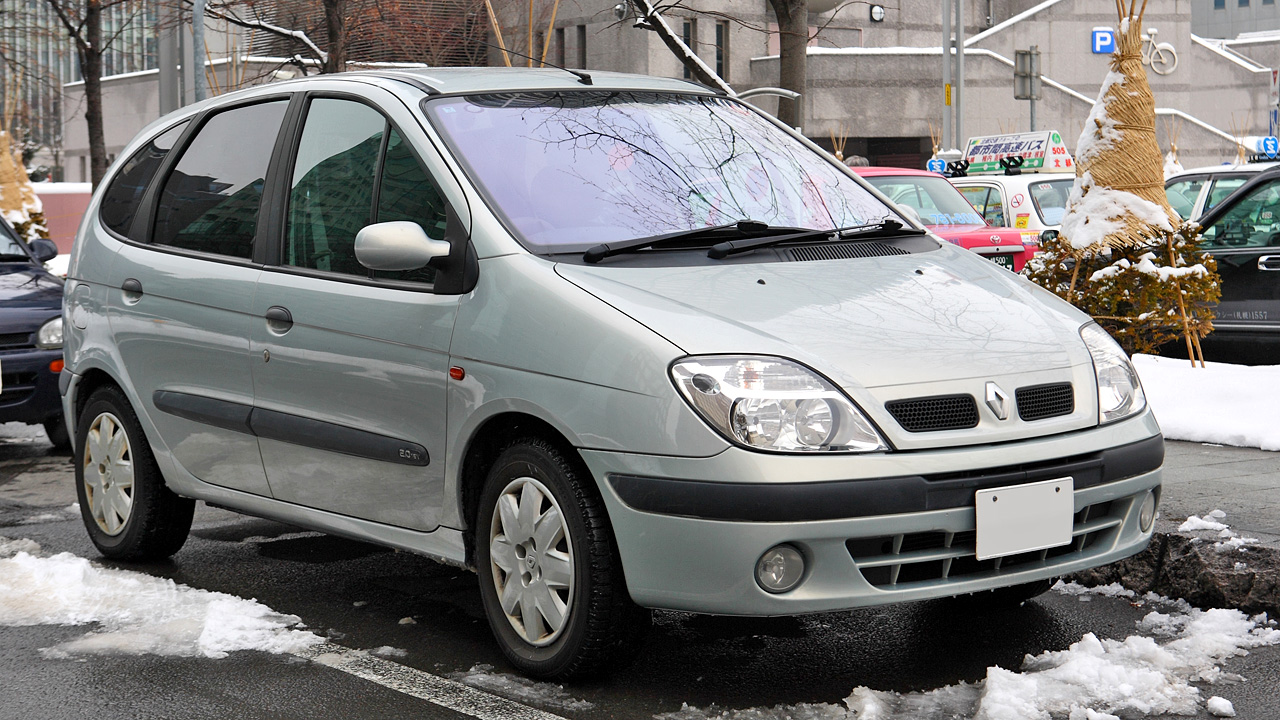 Renault Scénic I Phase 2